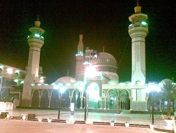 Abdussalam al Asmar mosque, Zliten